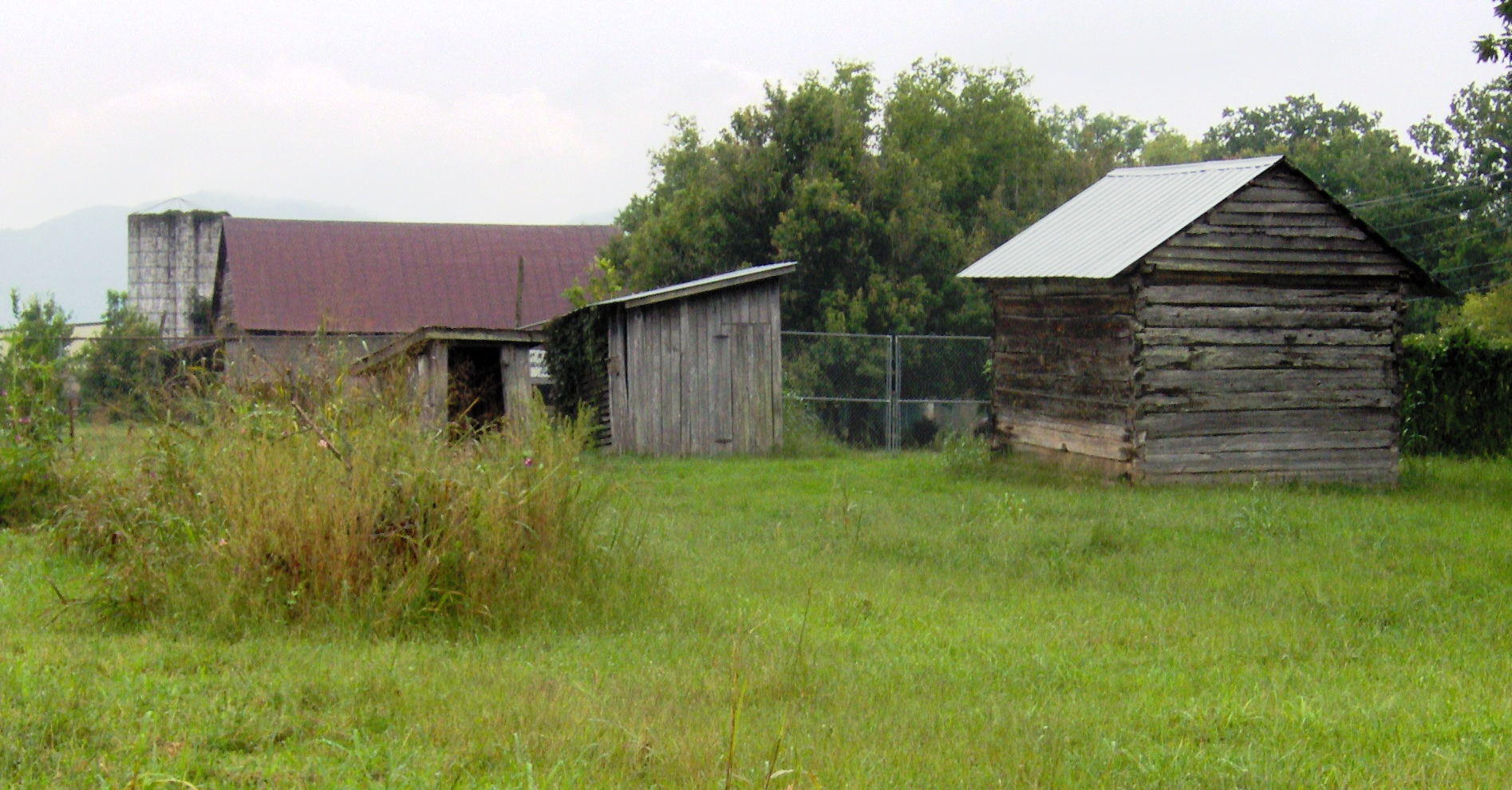 Outbuildings at Rose Glen, a historic house and outbuildings near the U.S. city of Sevierville, Tennessee, USA. Pictured are silo and barn (left, in the distance), outhouse (left-middle), corn crib (right-middle), and smokehouse (right). The Great Smoky Mountains rise in the distance.